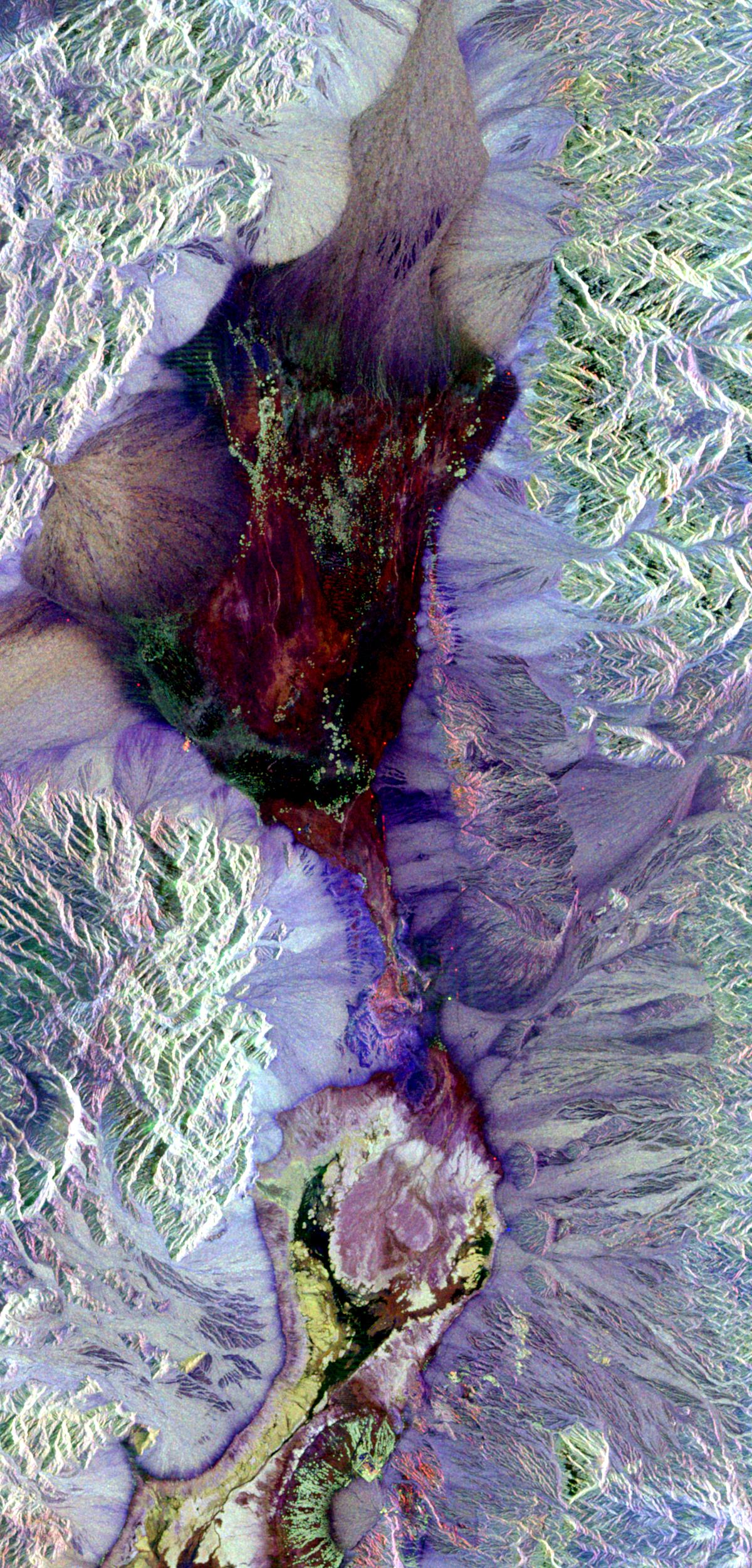 Death Valley as seen from the Space Shuttle's synthetic aperture radar instrument. This image is in false color; the surface color and intensity represent the radar reflection properties of the ground cover. The image is arranged like a map; the image pixels represent (approximately) rectangles on the ground.